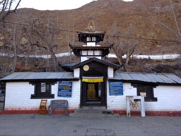 Muktinath Temple of Nepal